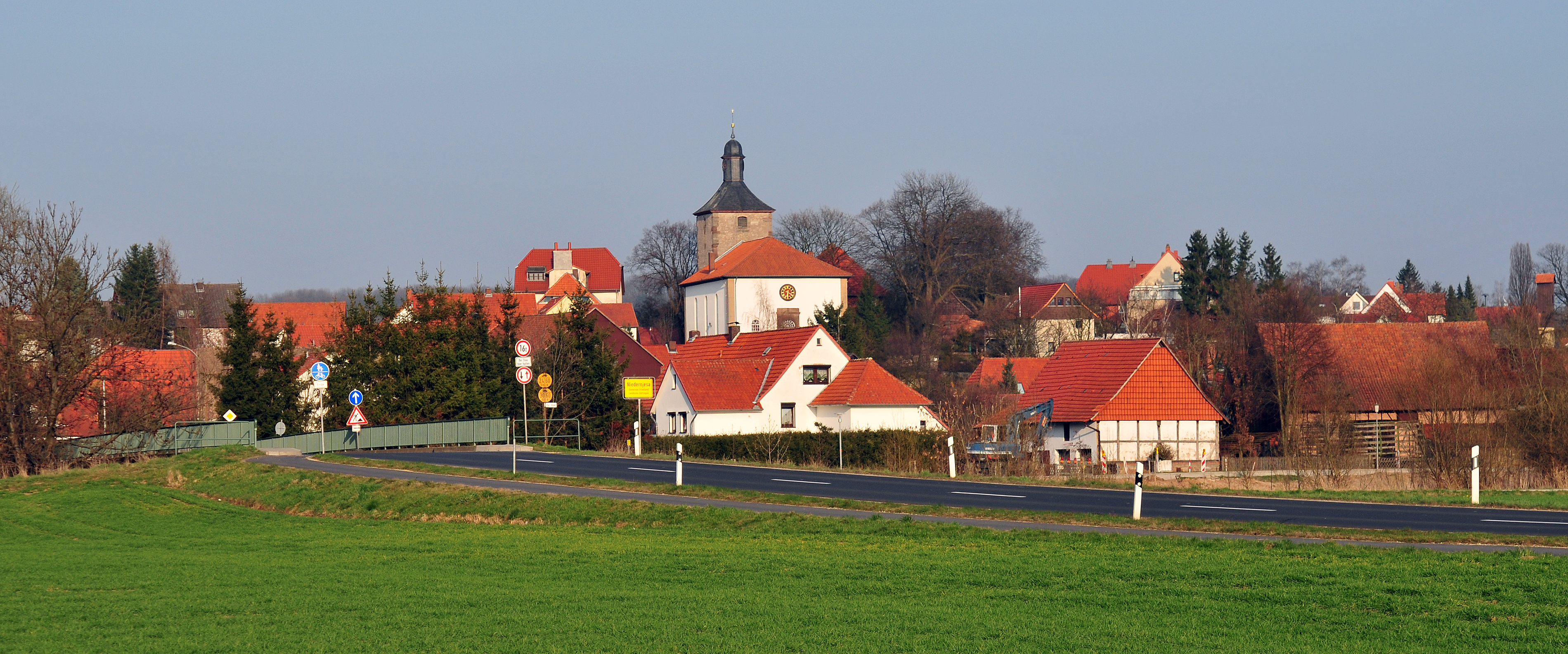 View of Niedernjesa near Göttingen in Lower Saxony, Germany.